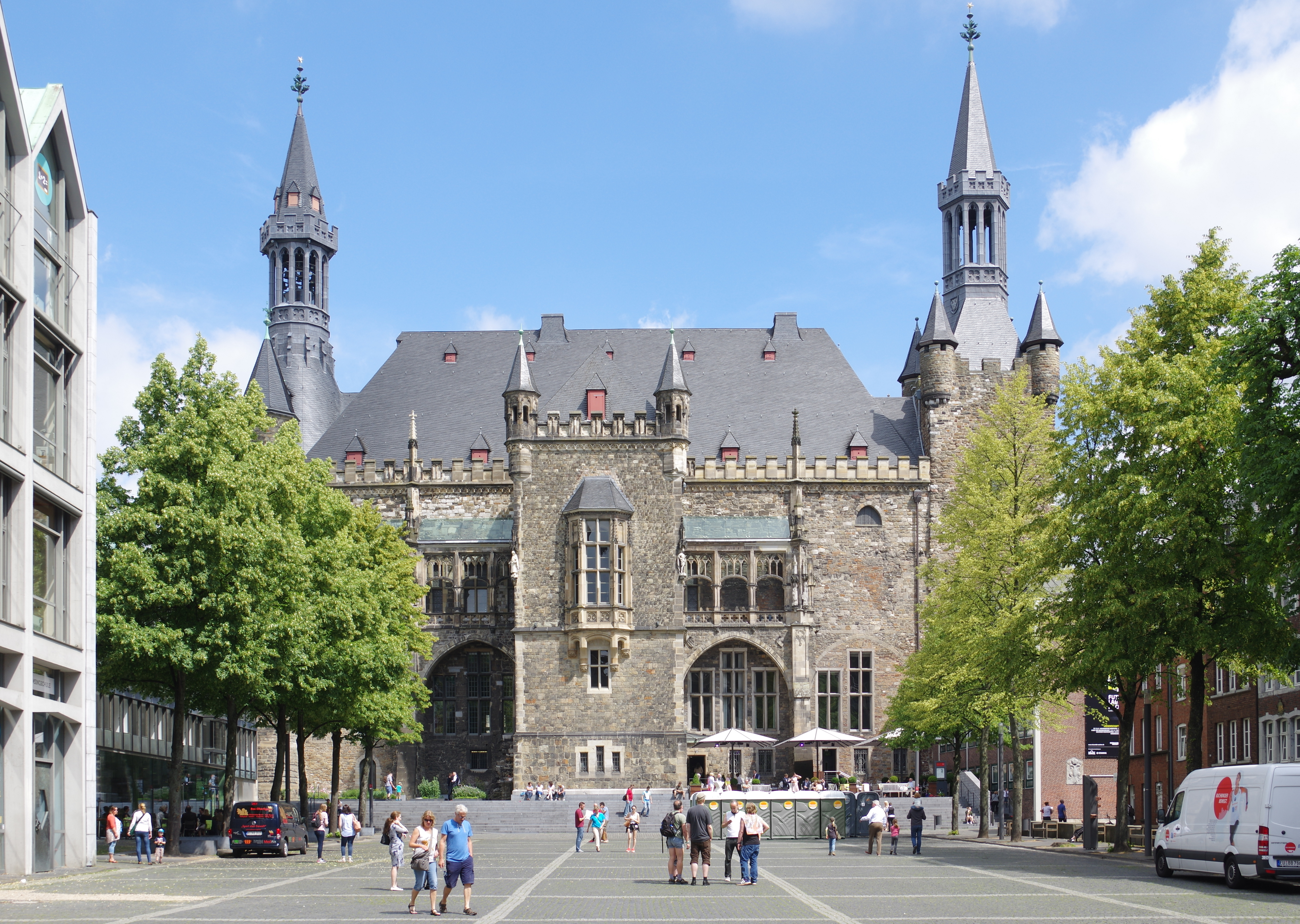 Germany, Aachen, town hall from south